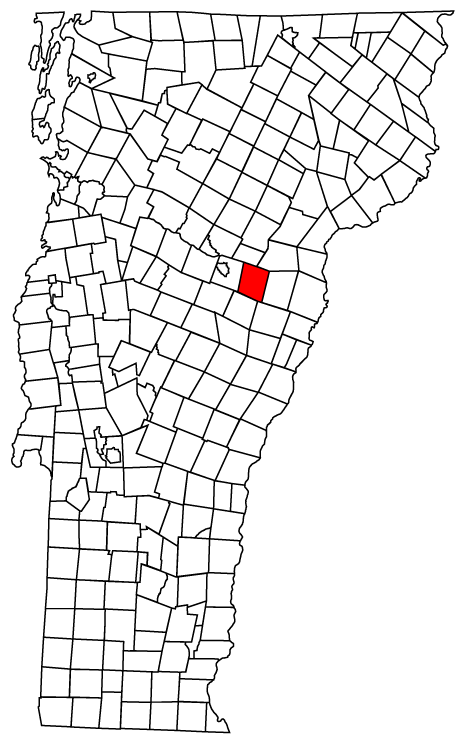 Description: Map of Vermont towns with Orange highlighted Source: Map created by Jared C. Benedict on 26 March 2004. Copyright: © Jared C. Benedict.